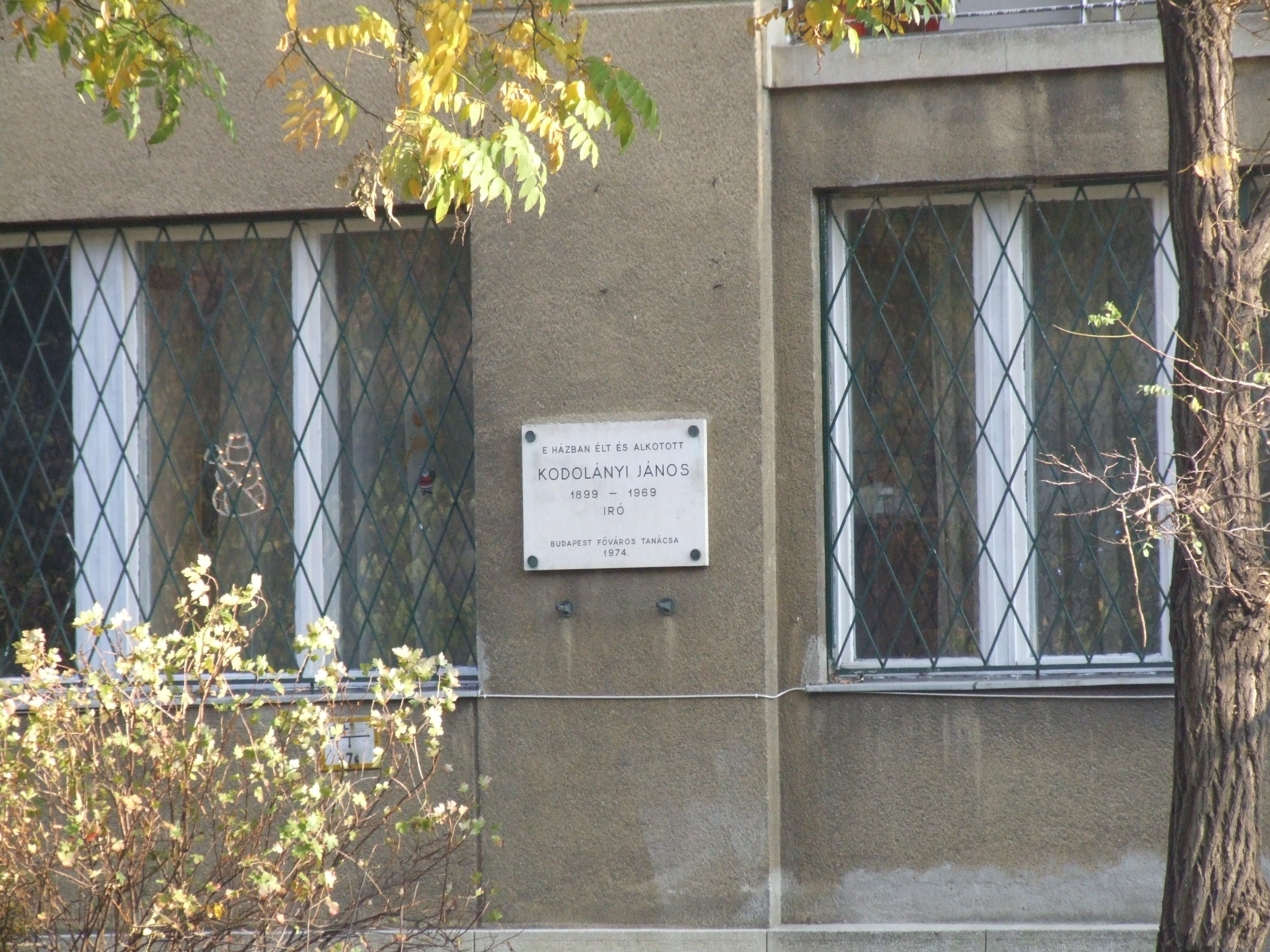 János Kodolányi commemorative plaque in Budapest District XII, corner of the Böszörményi Street and Beethoven Street